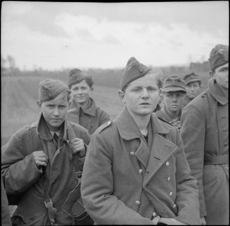 The British Army in North-west Europe 1944-45 Young German prisoners captured by 11th Armoured Division in the village of Levern, 4 April 1945.